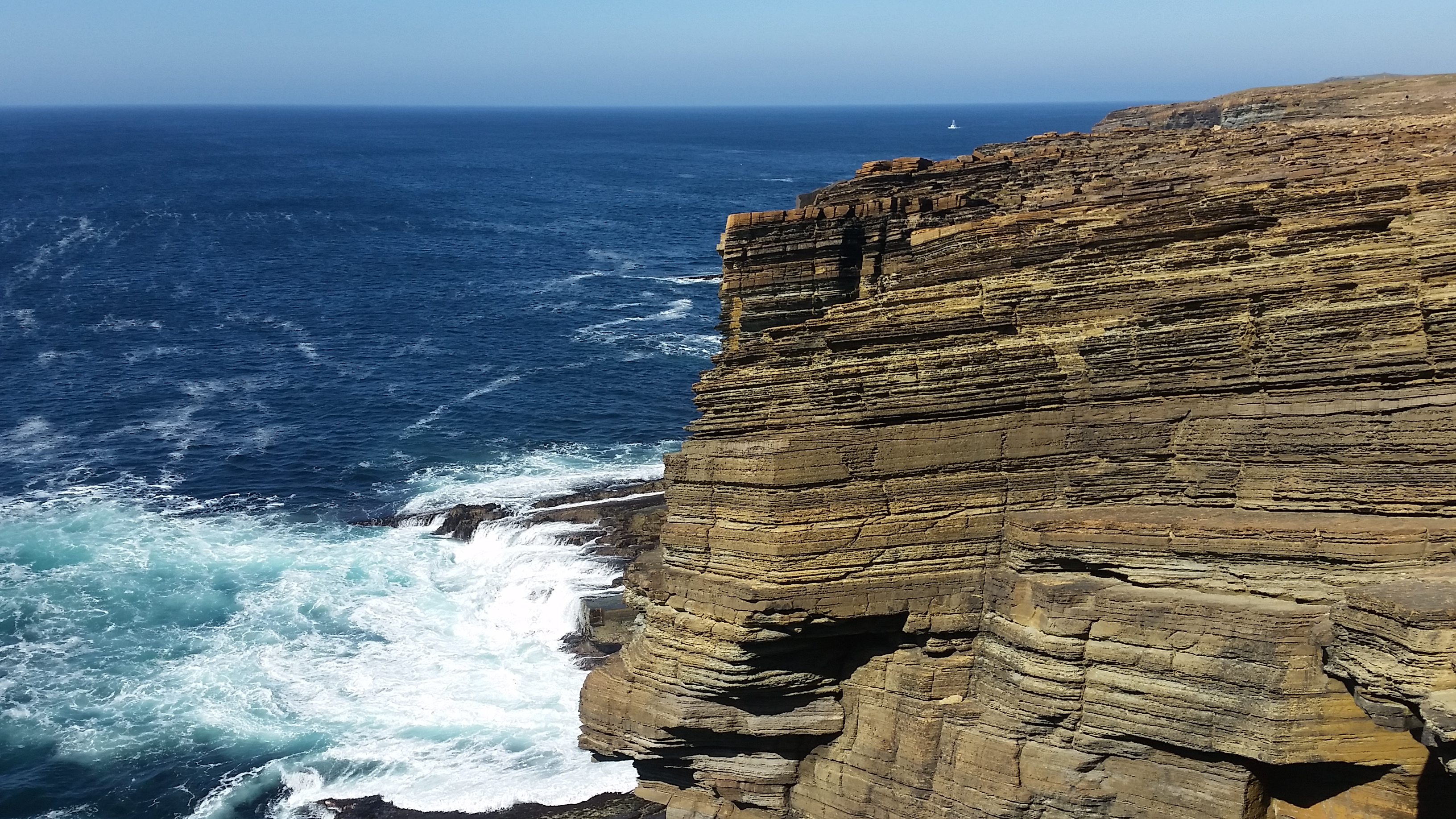 Yesnaby.